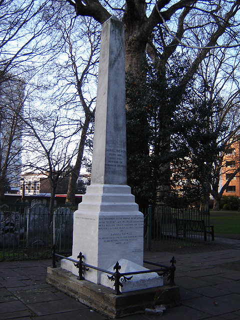 Daniel Defoe memorial, Bunhill Fields, City Road, Finsbury, London. 28 January 2006. Photographer: Fin Fahey.